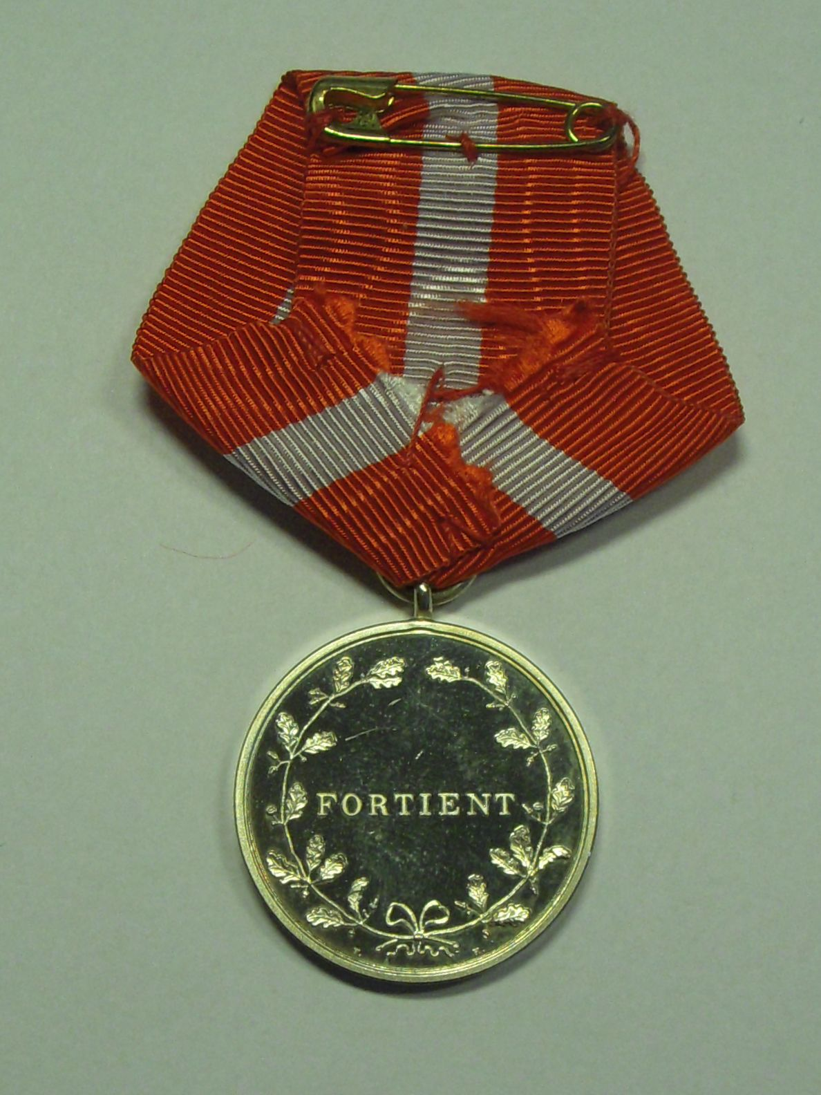 Medal for good service in the Royal Danish Navy - seen from the back